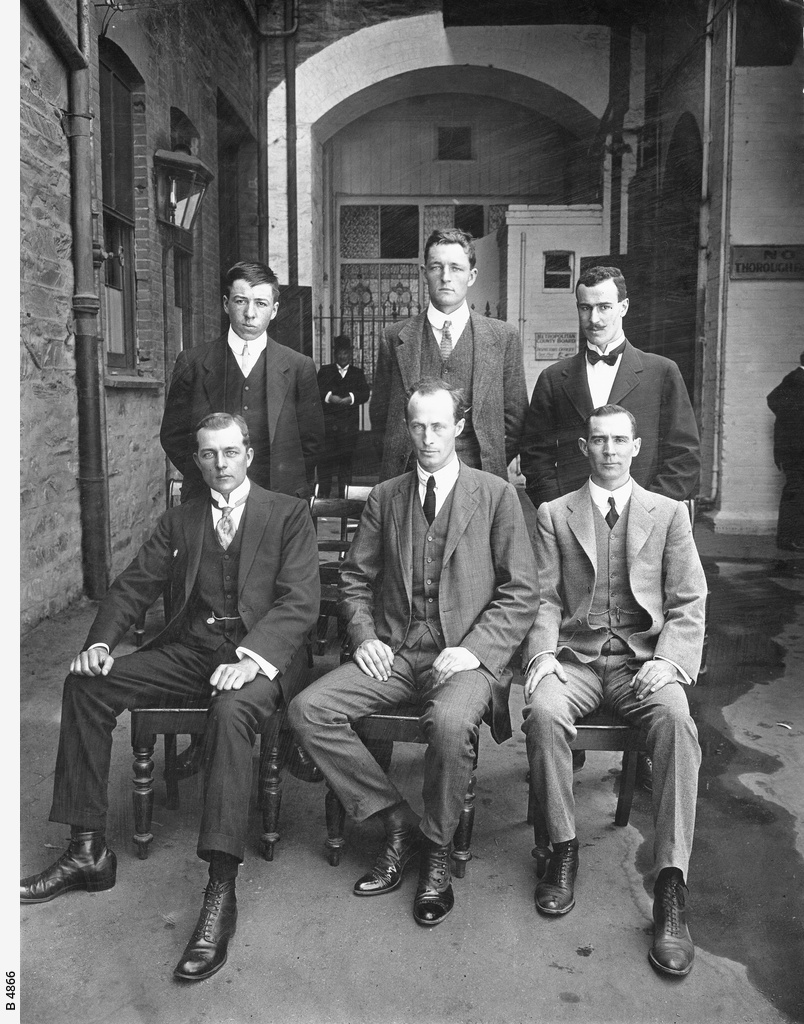 Photograph of 6 members of the Australasian Antarctic Expedition taken in 1911. Back Row: Percy Correll, Cecil Madigan and Frank Bickerton. Front row: Alfred Hodgeman, Sir Douglas Mawson and Morton Moyes.